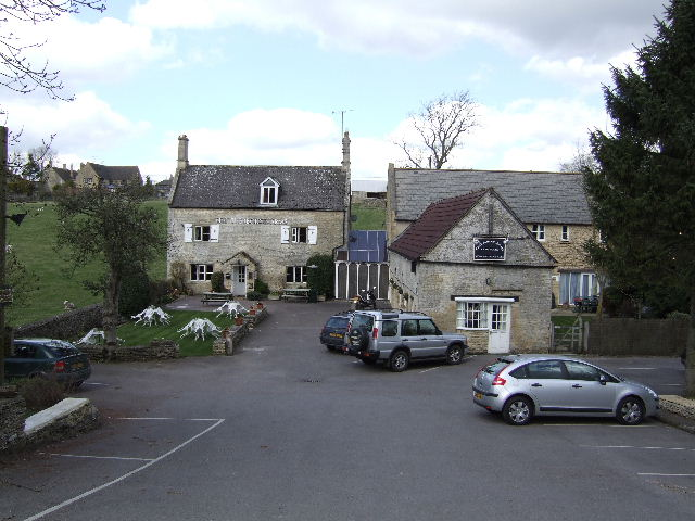 Sherbourne Arms, Aldsworth. Good range of guest beers - 4/5pumps